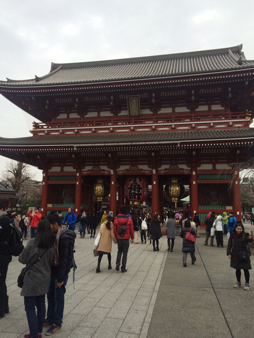 Hōzōmon gate of the Sensō-ji temple